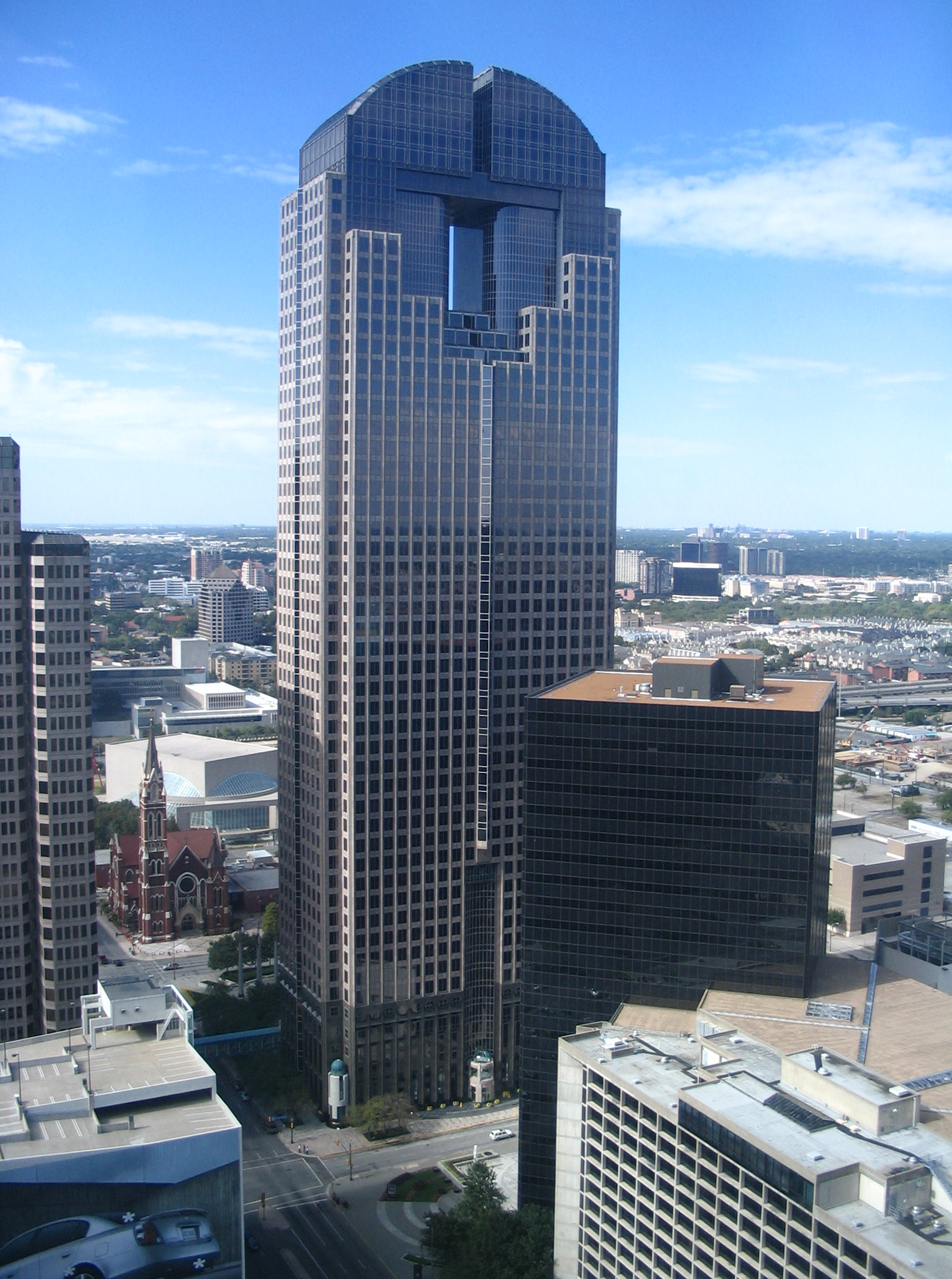 JP Morgan Chase Tower in Dallas, Texas.